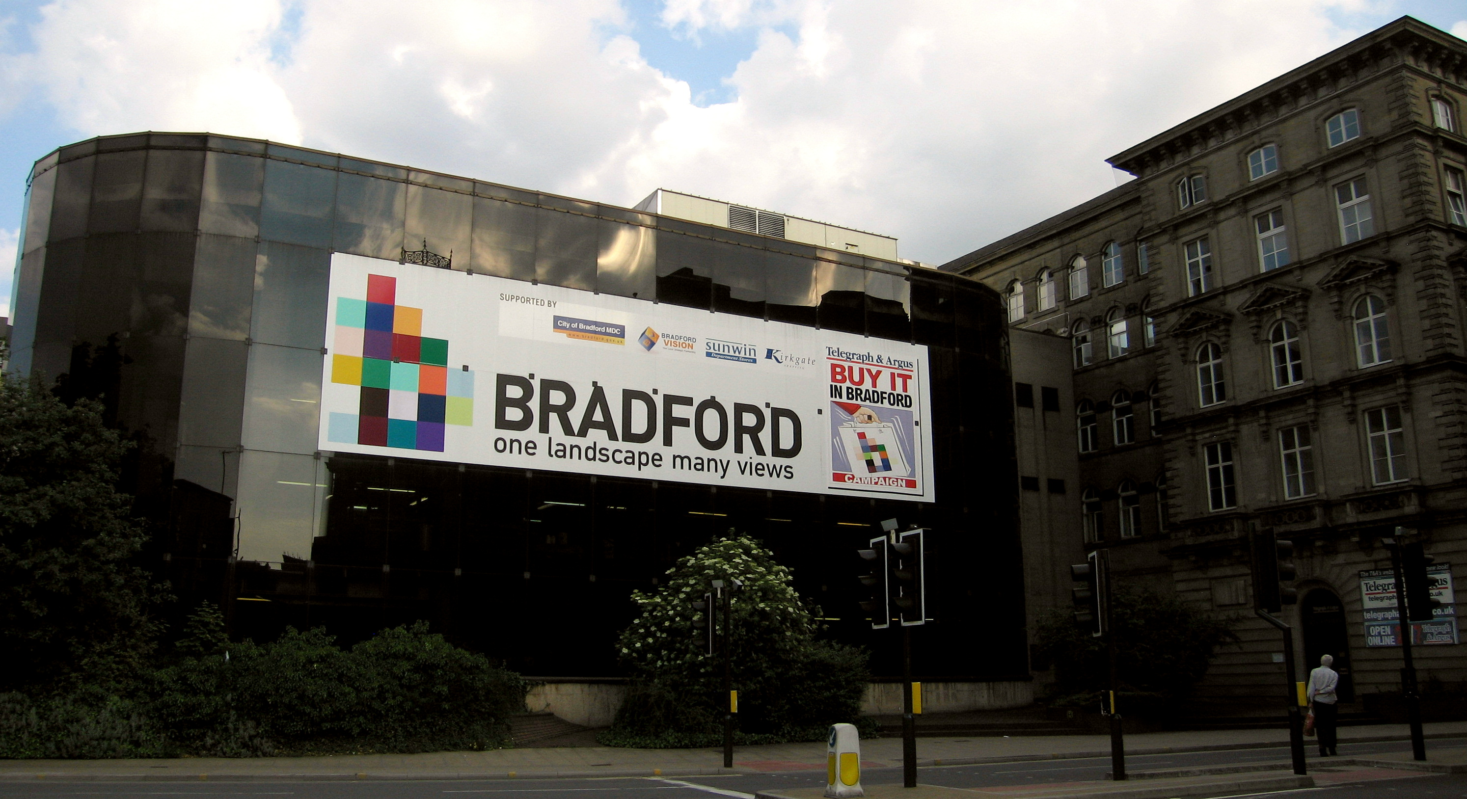 New Telegraph and Argos building, Bradford, West Yorkshire, England.